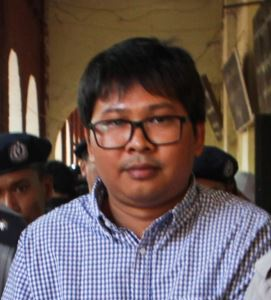 Police escort detained Reuters journalist Wa Lone